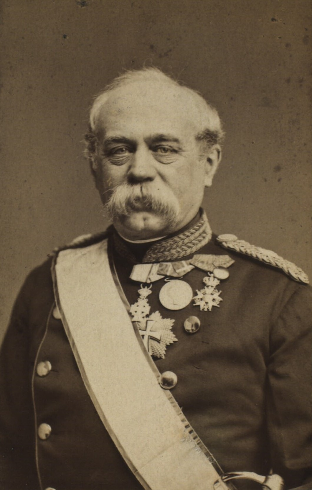 Waldemar Rudolph Raasløff (1815-1883), Danish General, Minister of War, MP